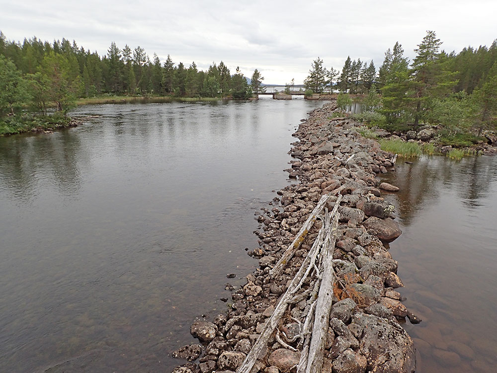 The southern outlet of lake Eggelats/Ieggelatj with a dam construction and a stone guide from the time of timber floating.